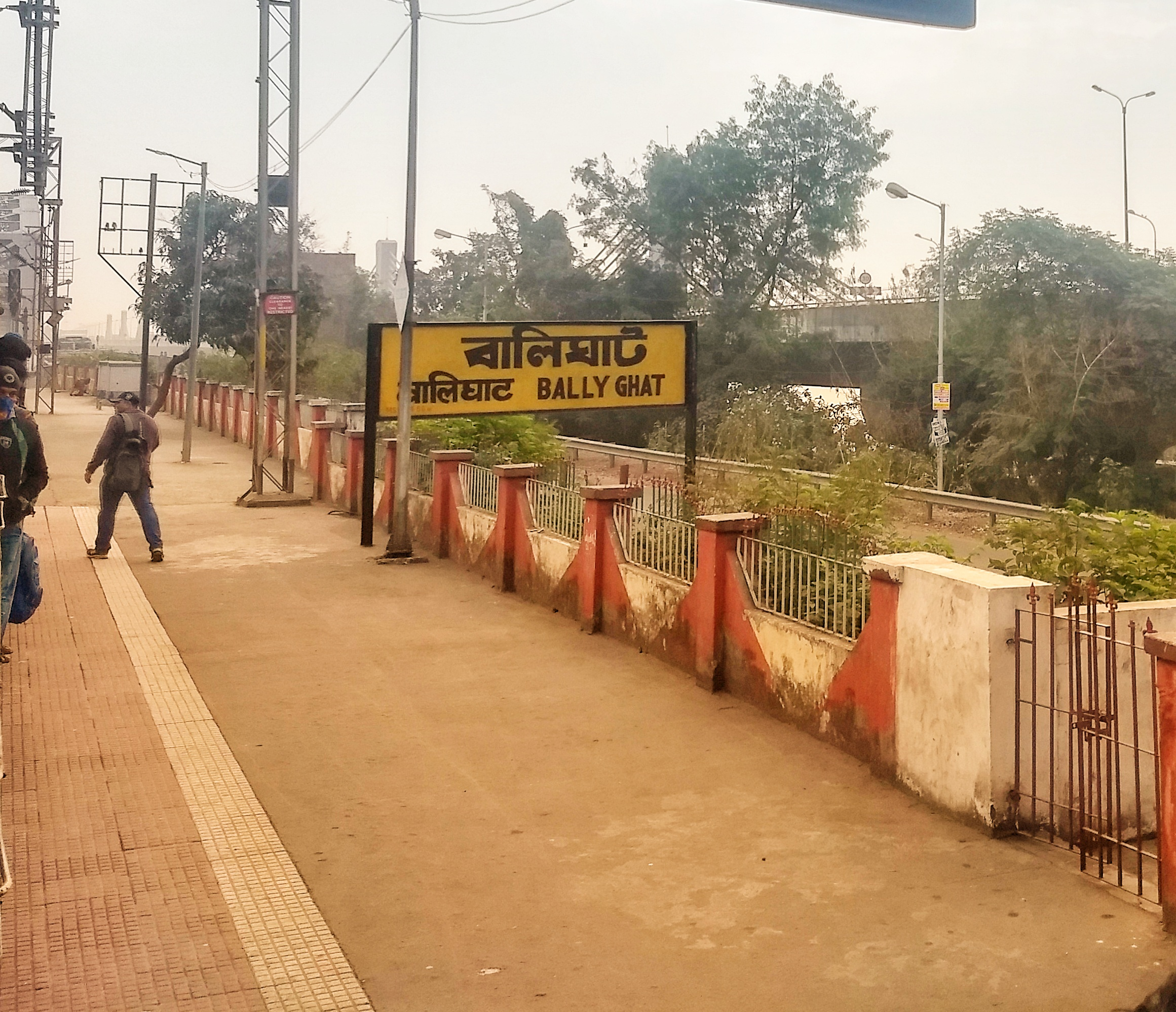 Ballyghat railway station